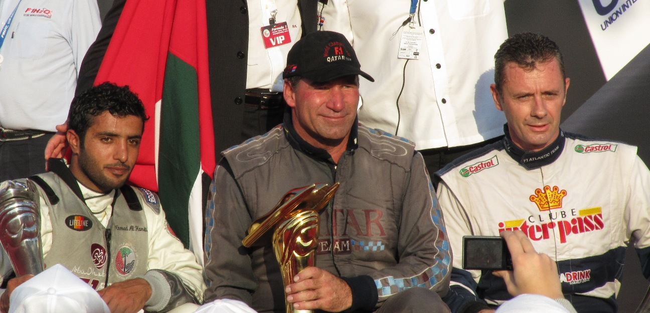 The winners of 2009 Abu Dhabi F1 Powerboat second race; left to right Ahmad Al Hameli from UAE (Runner-up), Jay Price from Qatar (Winner) and Philippe Chiappe from France (Third place)